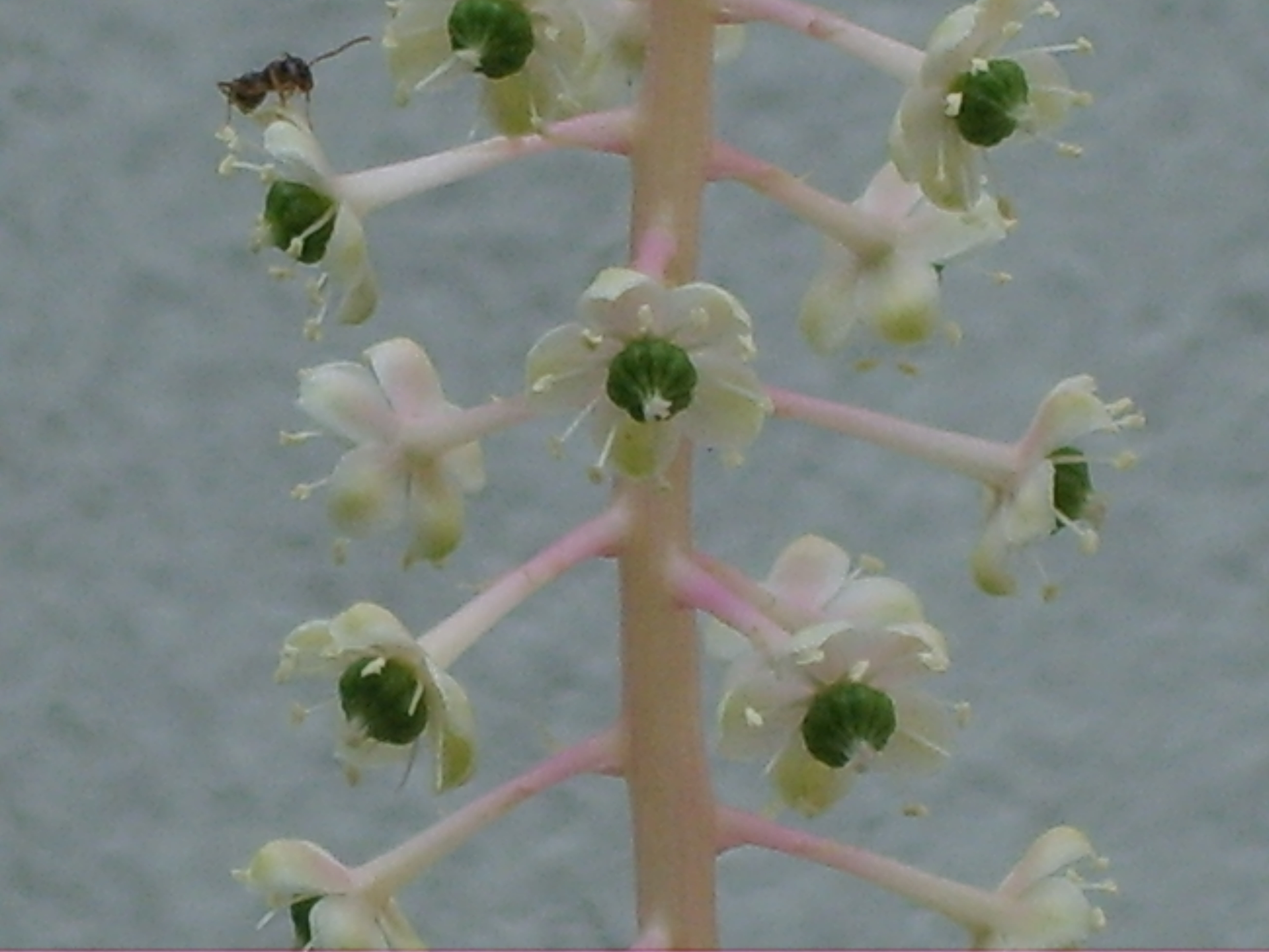 Phytolacca americana in Bupyung, Korea